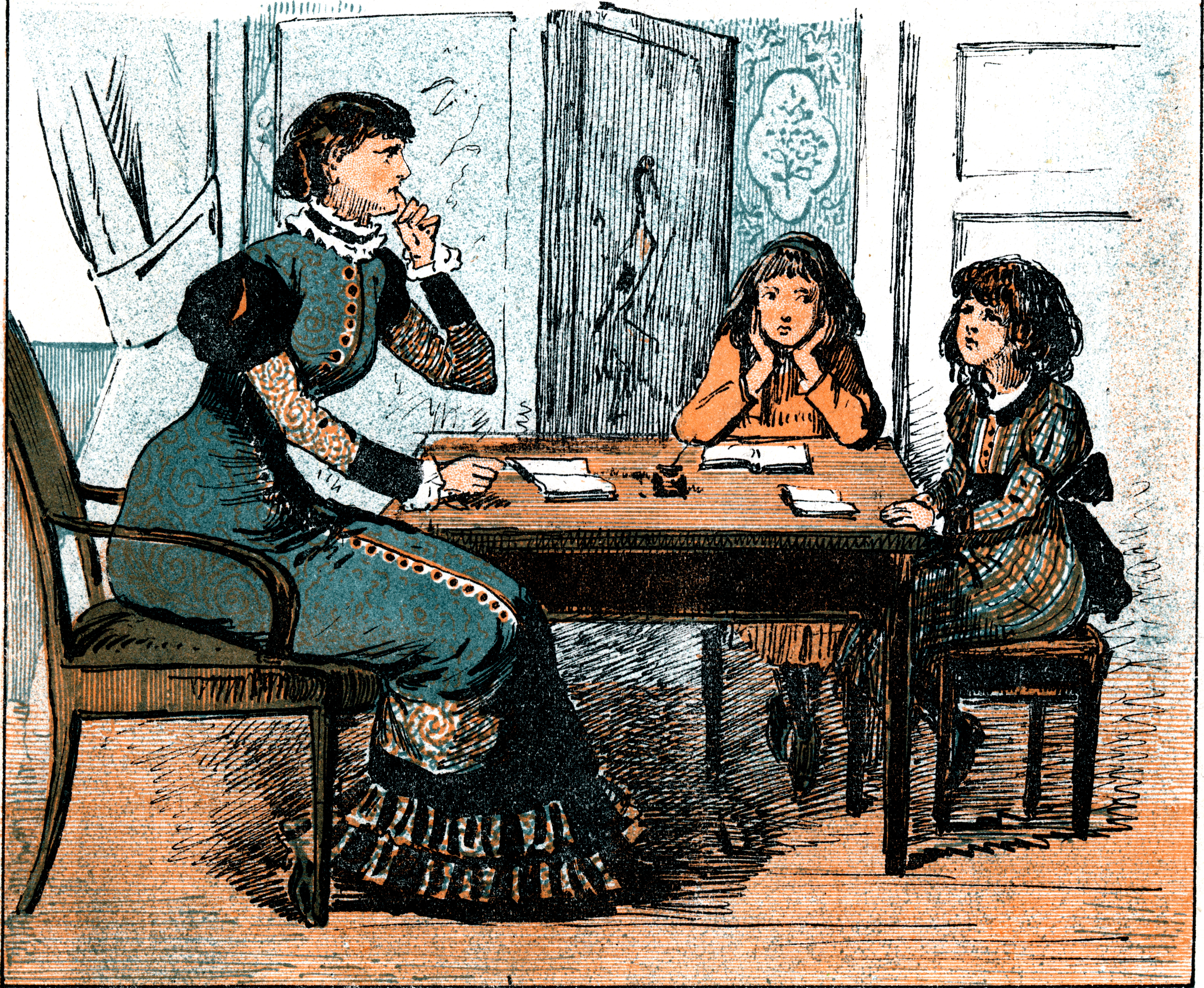 Childlike simplicity. — Can you tell me, dear Anna, what is "truth"? — It's something you may say "by God" on. — I say as ever "by God"? — No, madam, but Mother also says that you say is not always true.